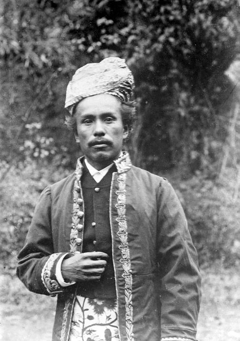 Negative. Portrait of the village head of Soengai Poear